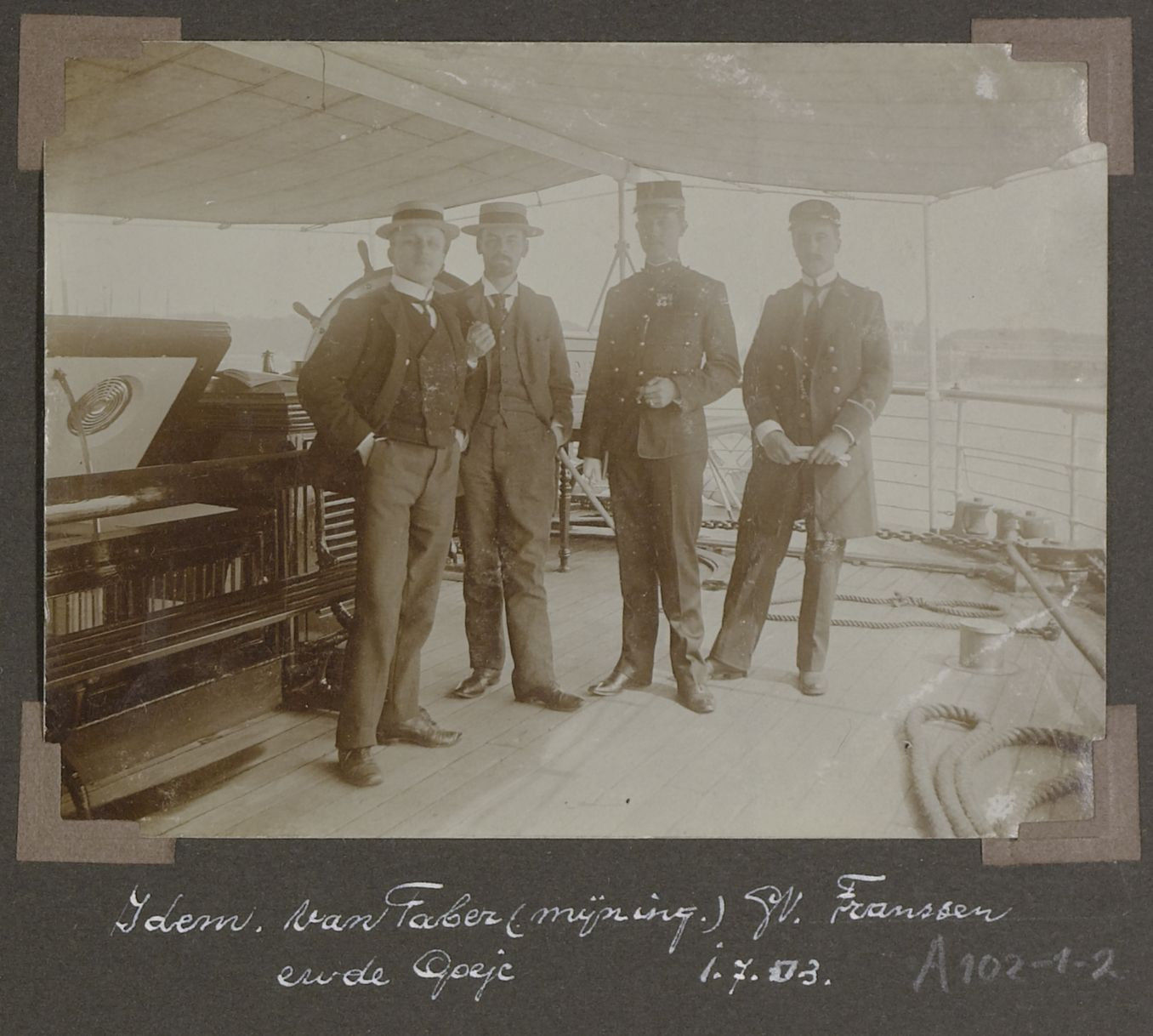 Photograph made during the Gonini Expedition in Suriname, 1903-1904. The Royal Dutch Geographical Society (KNAG) conducted an expedition to explore the surroundings of the Gonini River.